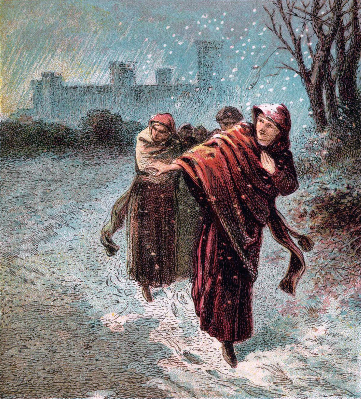 Maude flees from Stephen